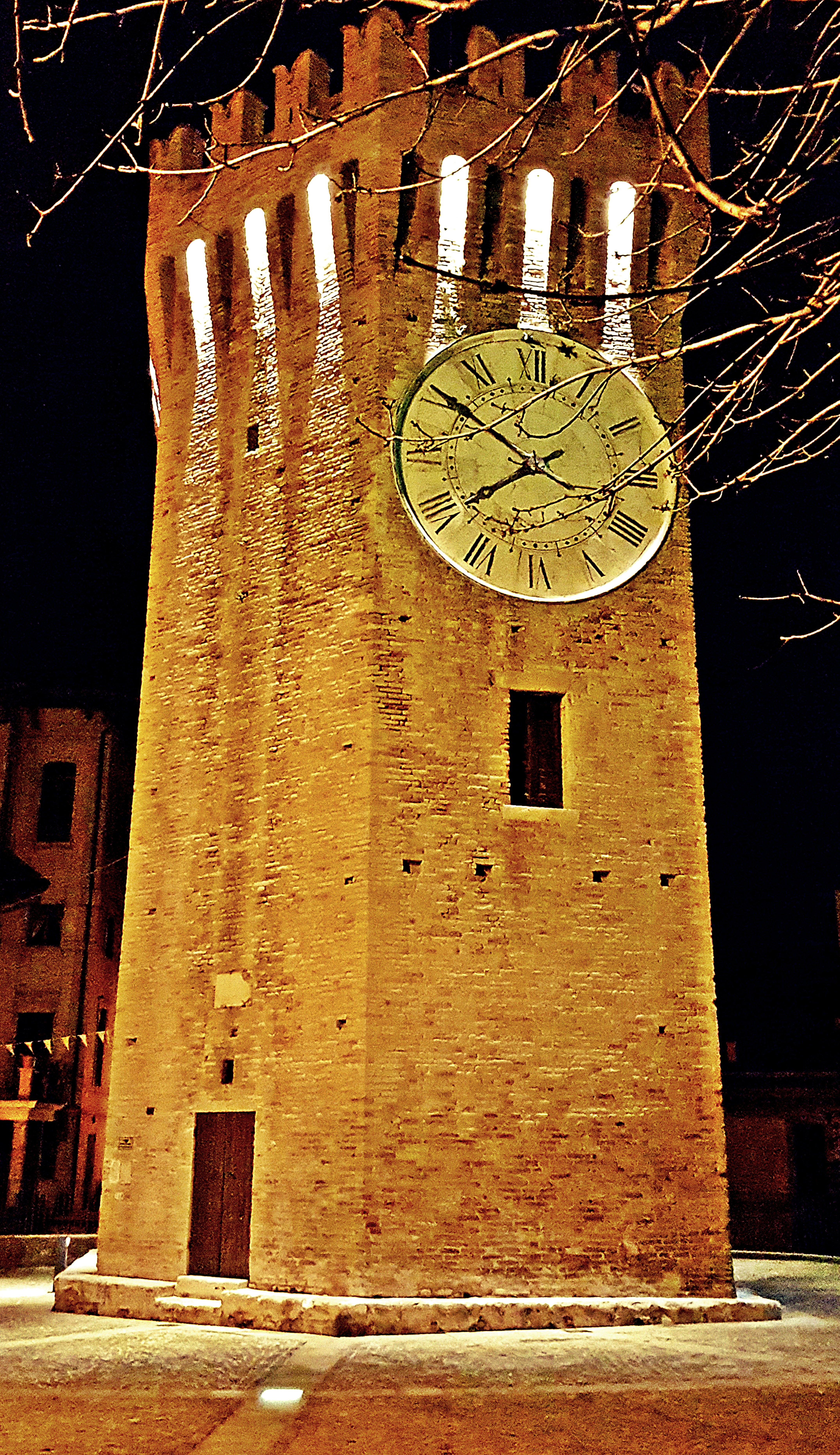 San Benedetto del Tronto, the tower of the Gualtieri